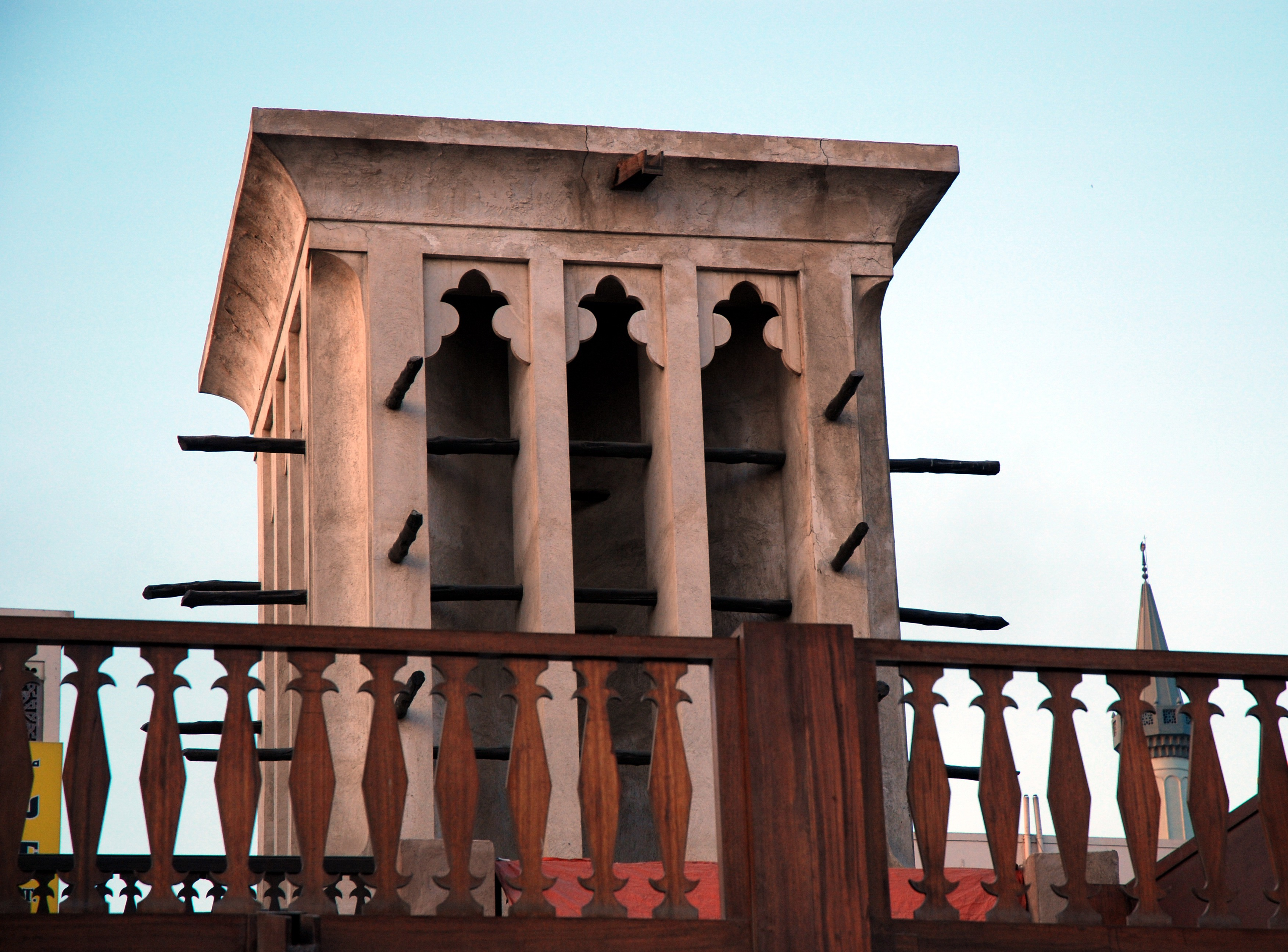 Wind tower in Dubai